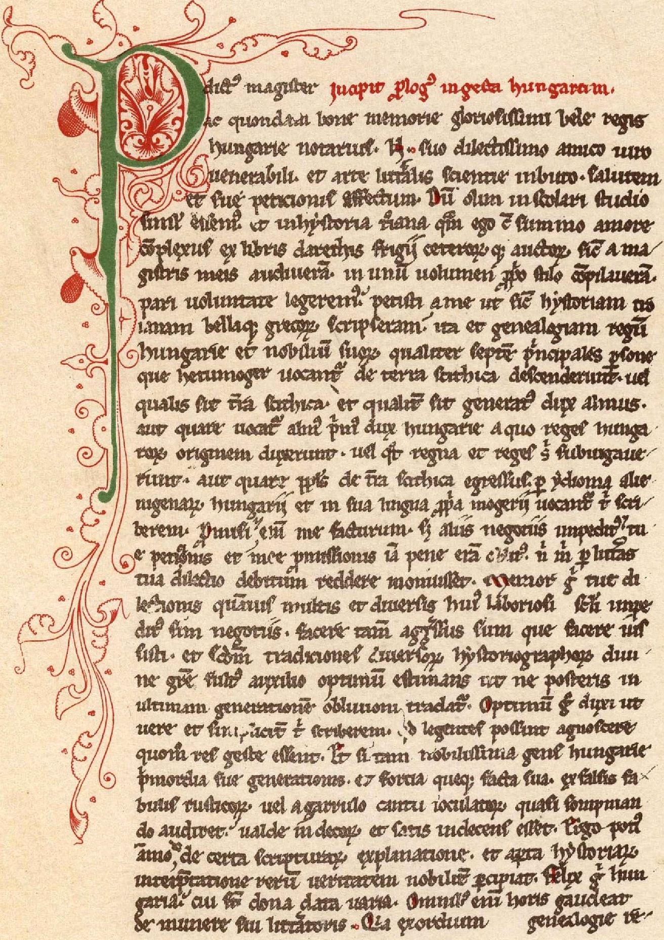 "Gesta Hungarorum", de Anonymous, ~1200